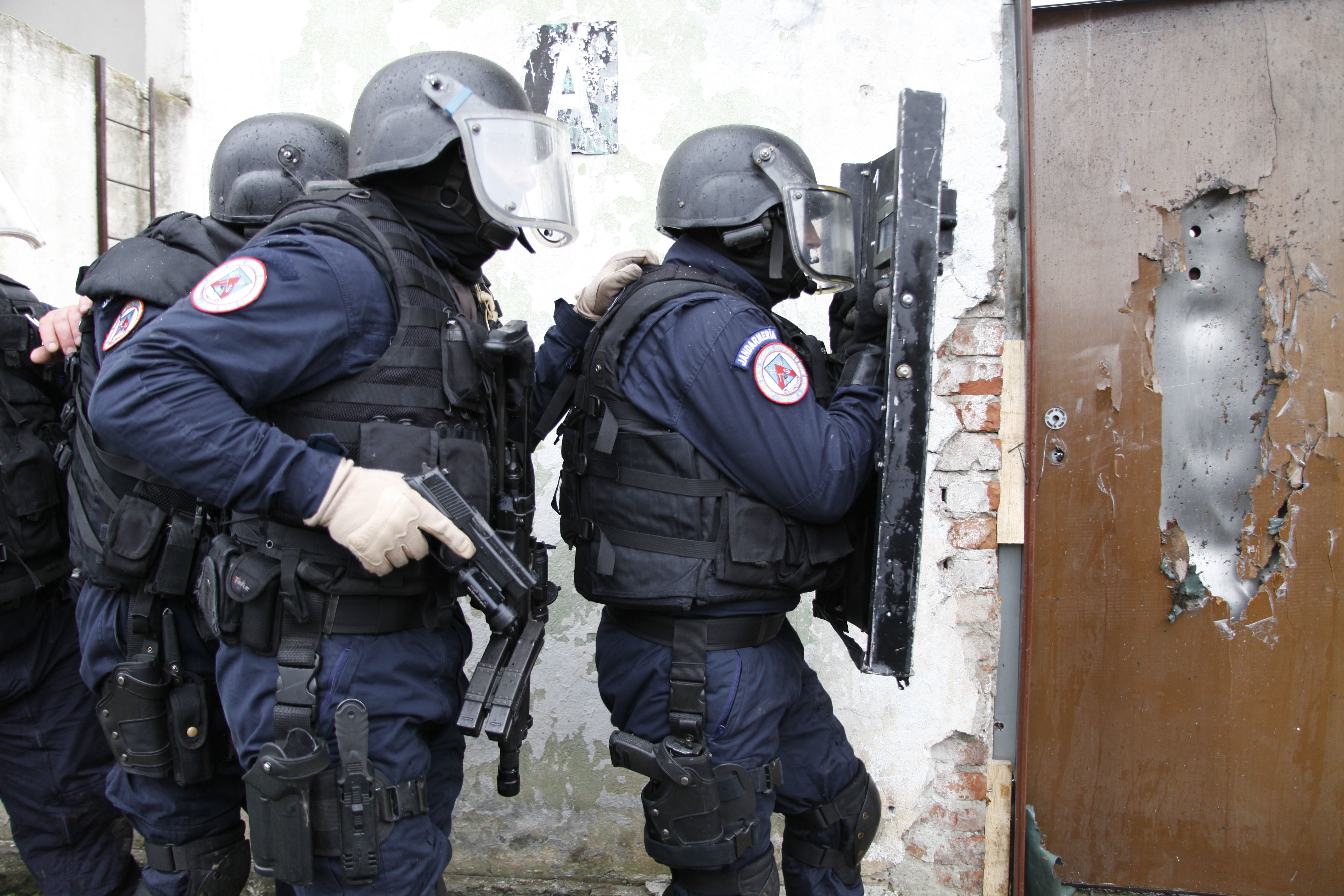 Romanian Jandarmeria police officers demonstrate room-clearing and close-quarter battle techniques to U.S. Marines from Alpha Fleet Anti-terrorism Security Team Company Europe (FASTEUR), Naval Station Rota, at the Training Center of the Romanian Jandarmeria Special Intervention Brigade in Bucharest, Romania, Feb. 25, 2015. The demonstration was held in conjunction with training at the U.S. Embassy Bucharest that provided FASTEUR Marines a chance to conduct training on reinforcing an American embassy with host nation forces in case of a crisis. (U.S. Marine Corps photo by Sgt. Esdras Ruano/Released)